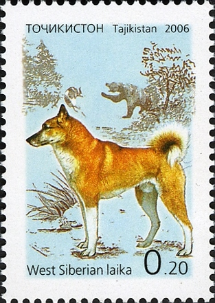 Stamps of Tajikistan, portraying West Siberian Laika